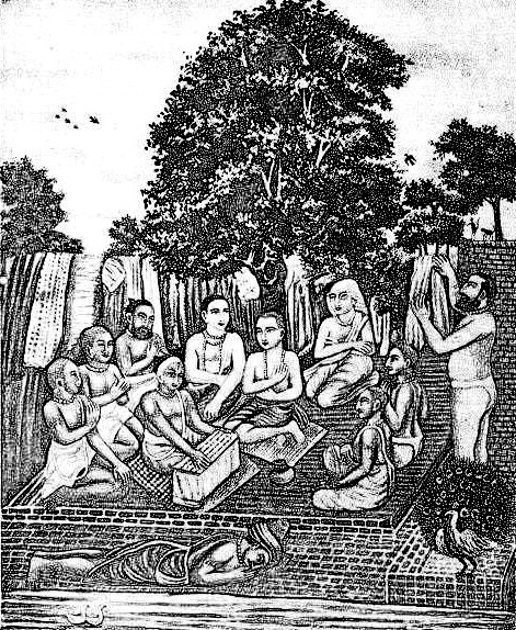 A sketch of an old painting showing Gajapati Prataprudra Deva bowing before Chaitanya that is in possession of the Zamindar of Kunjaghata